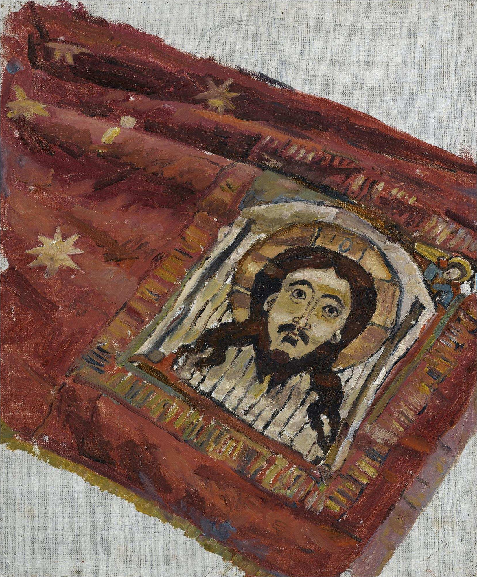 THE STANDARD WITH THE MANDYLION KEPT IN THE ARMOURY OF THE MOSCOW KREMLIN: A PREPARATORY STUDY FROM "THE CONQUEST OF SIBERIA BY YERMAK"